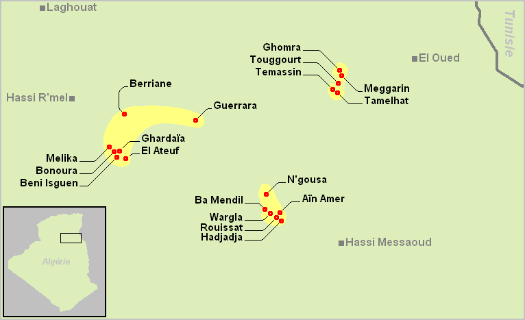 Map of Mzab-Wargla-Righ Berber-speaking areas/oases